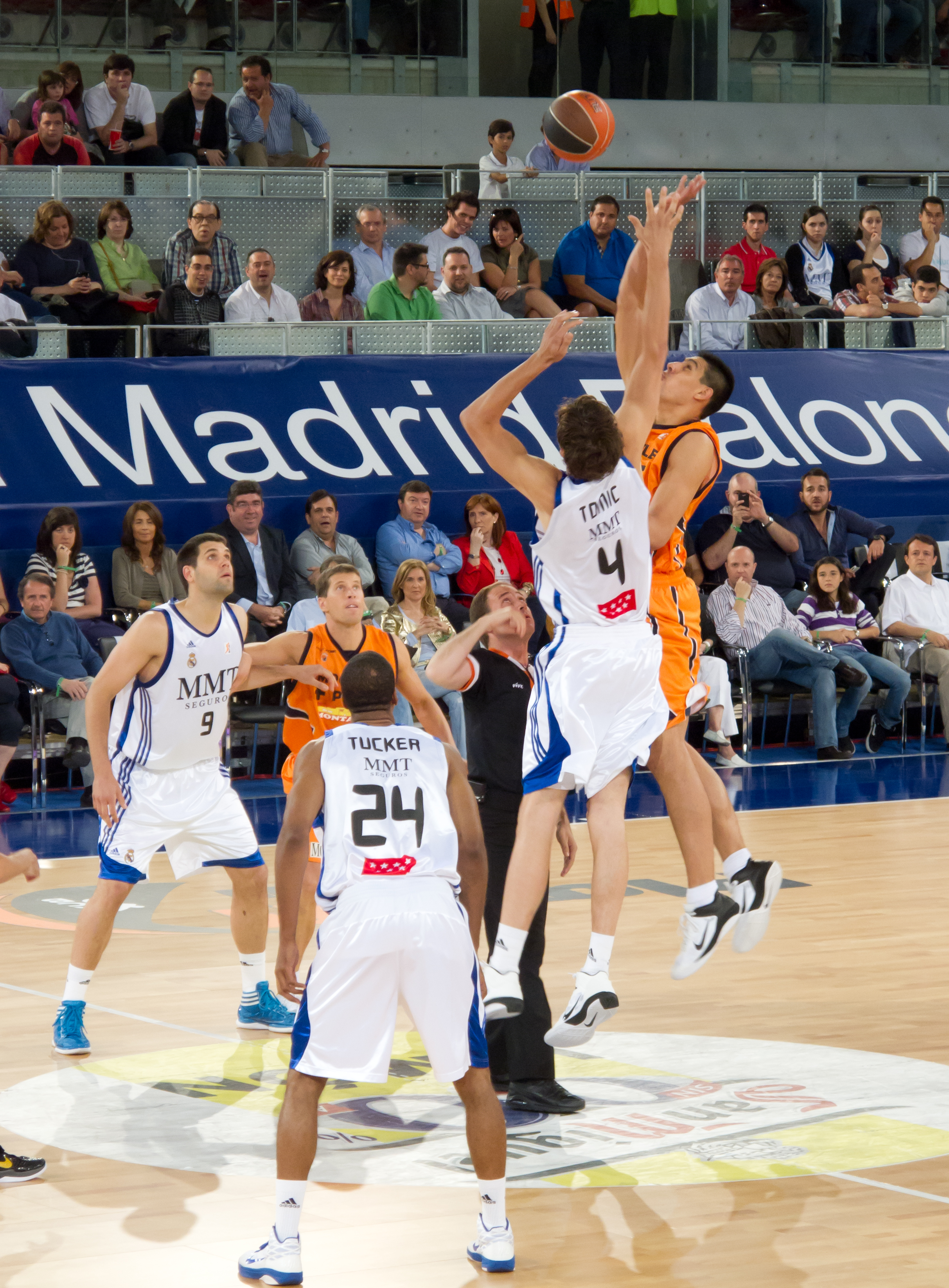 Jump ball between Ante Tomić (Real Madrid) and Gustavo Ayón (Fuenlabrada).